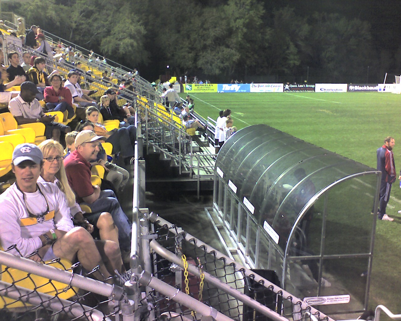 Home of the Charleston Battery of the USL First Division, Blackbaud Stadium hosts an annual soccer tournament, the Carolina Challenge Cup, with three Major League Soccer teams. My wife and I first went in 2006 to cheer for the Houston Dynamo, who had just left San Jose at that time, dressed in our San Jose Earthquakes gear. We had such a great time we went again in 2007. With the Quakes returning to MLS in 2008, I hope they go to this tournament so we can cheer for them there next March!